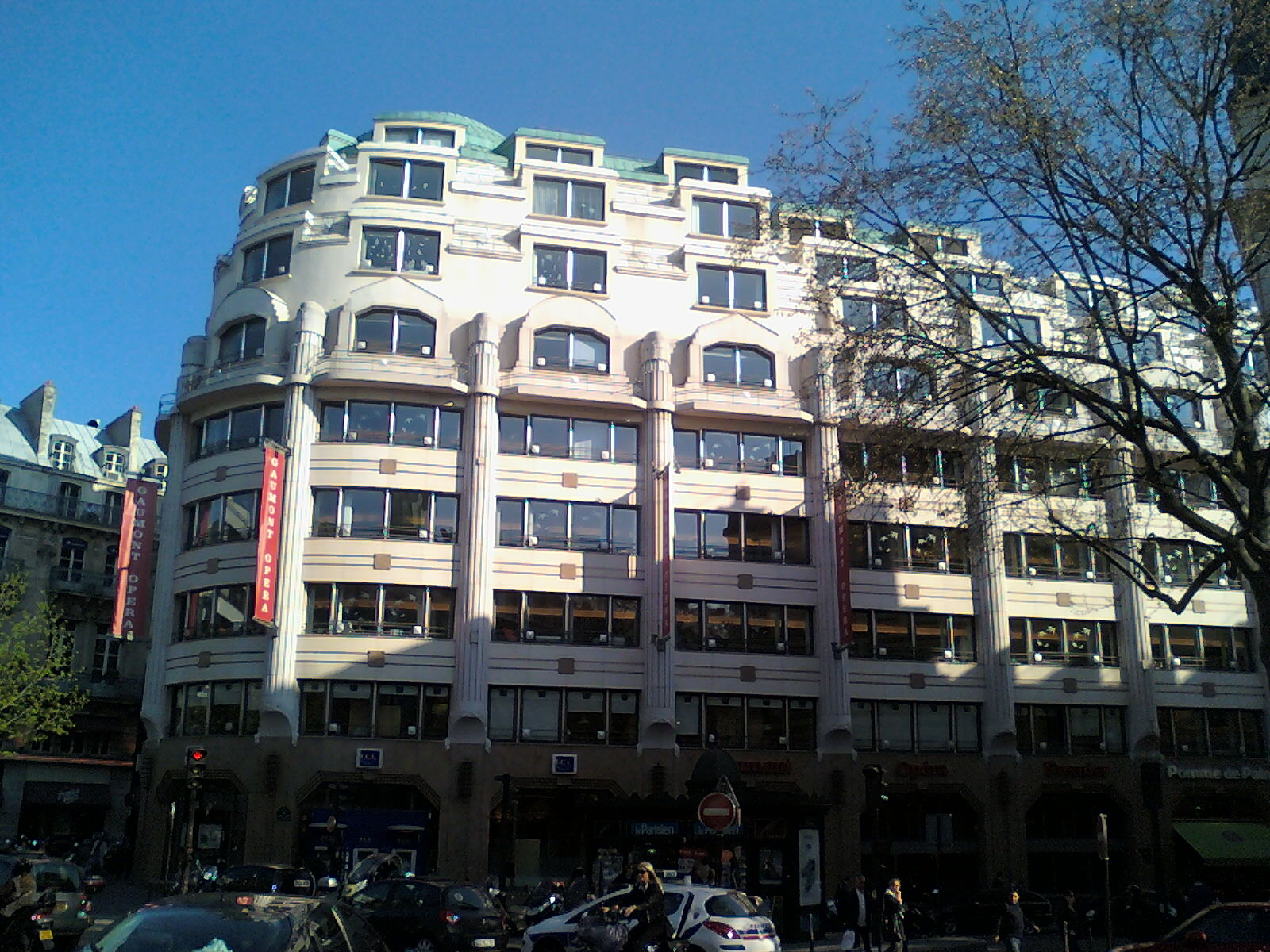 Palais Berlitz in Paris